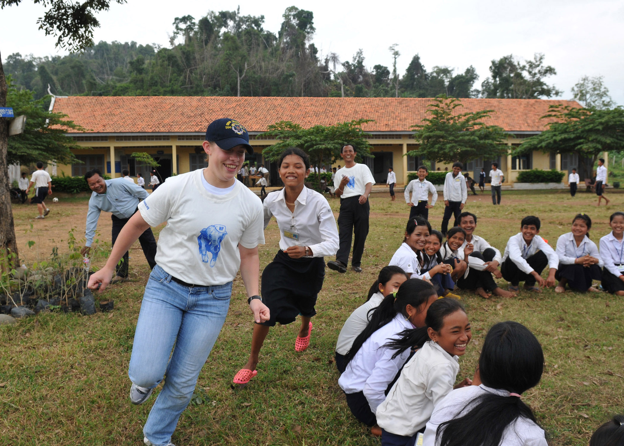 NORTHWESTERN CAMBODIA (Dec. 6, 2010) Sonar Technician Seaman Joy Chase, assigned to the guided-missile destroyer USS Mustin (DDG 89), plays duck-duck-goose with local school children during a community service project with the Maddox Jolie-Pitt foundation, a local charity organization. Sailors donated clothes, toys and interacted with local school children. (U.S. Navy photo by Mass Communication Specialist 3rd Class Devon Dow/Released)